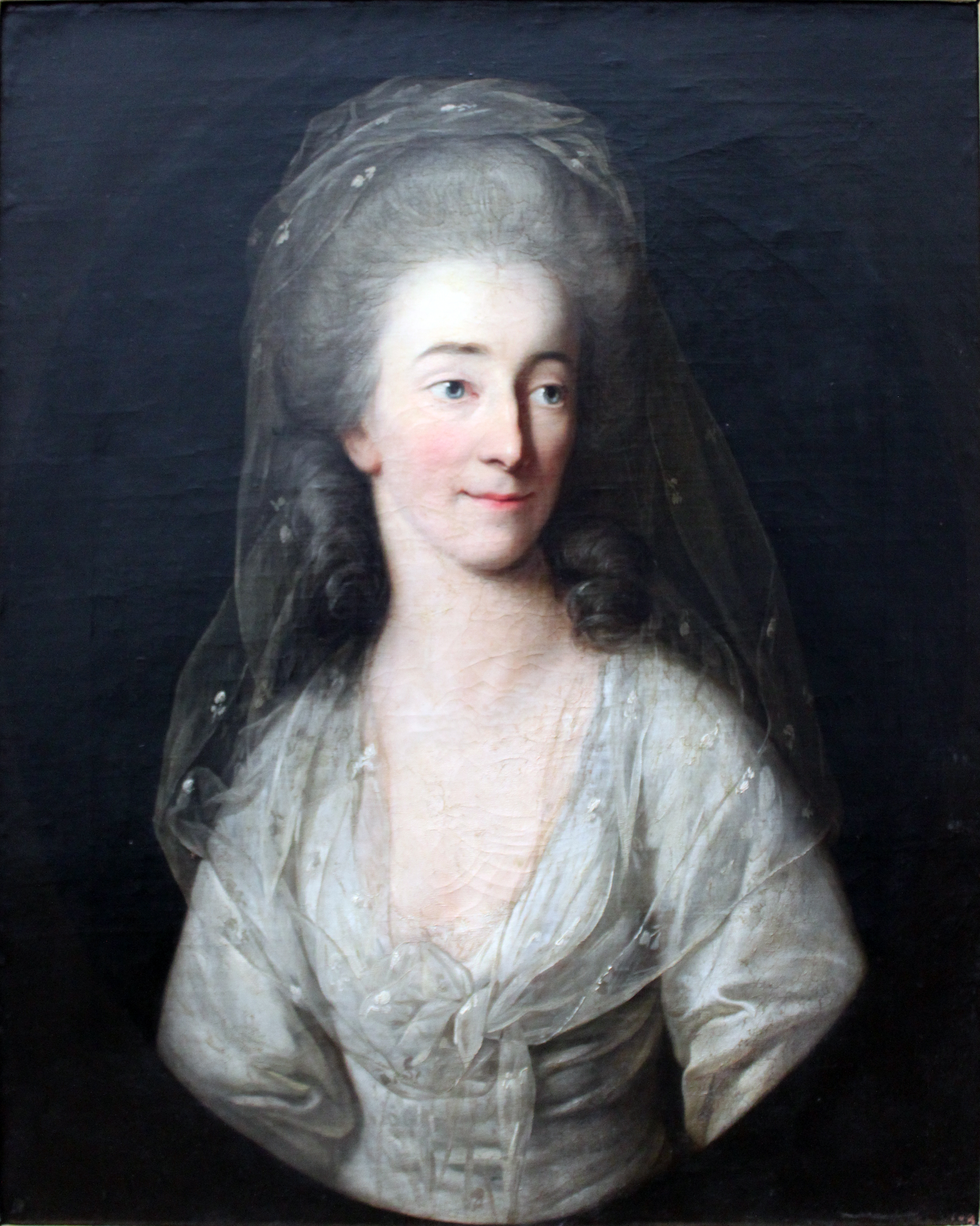 Portrait of Isabella von Broizem